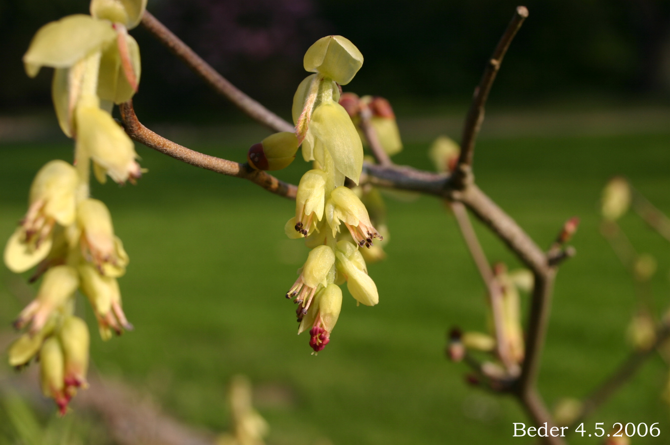 Corylopsis spicata: Flowers